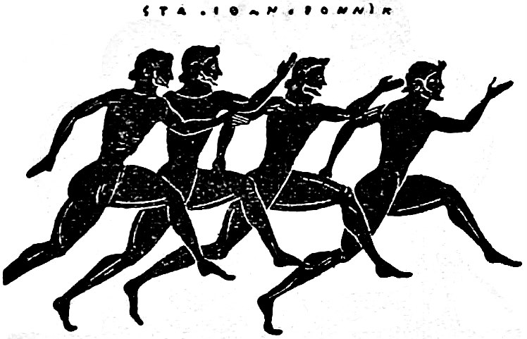 The reverse of a somewhat later black-figured ancient Greek vase of the Panathenaic class, given at Athens as a prize to the winner of a foot-race at the Panathenaea, with the foot-race (stadion) represented on it.